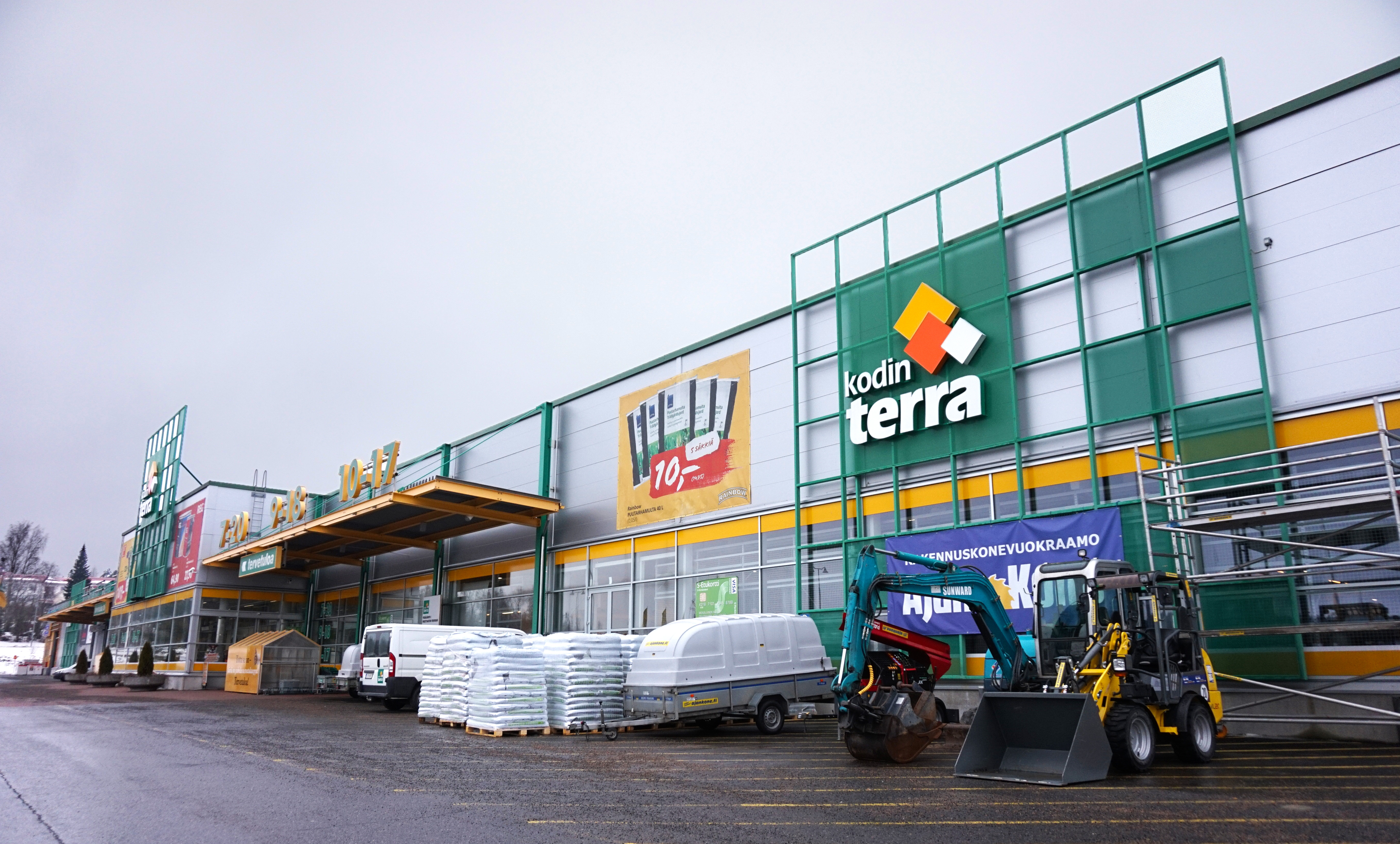 Kodin Terra in Jyväskylä.This photograph was taken with a Sony ILCE-5000